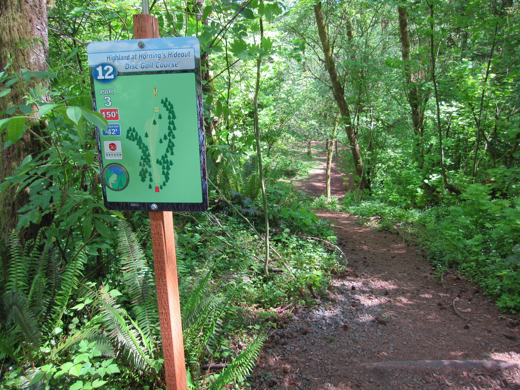 Disc golf map